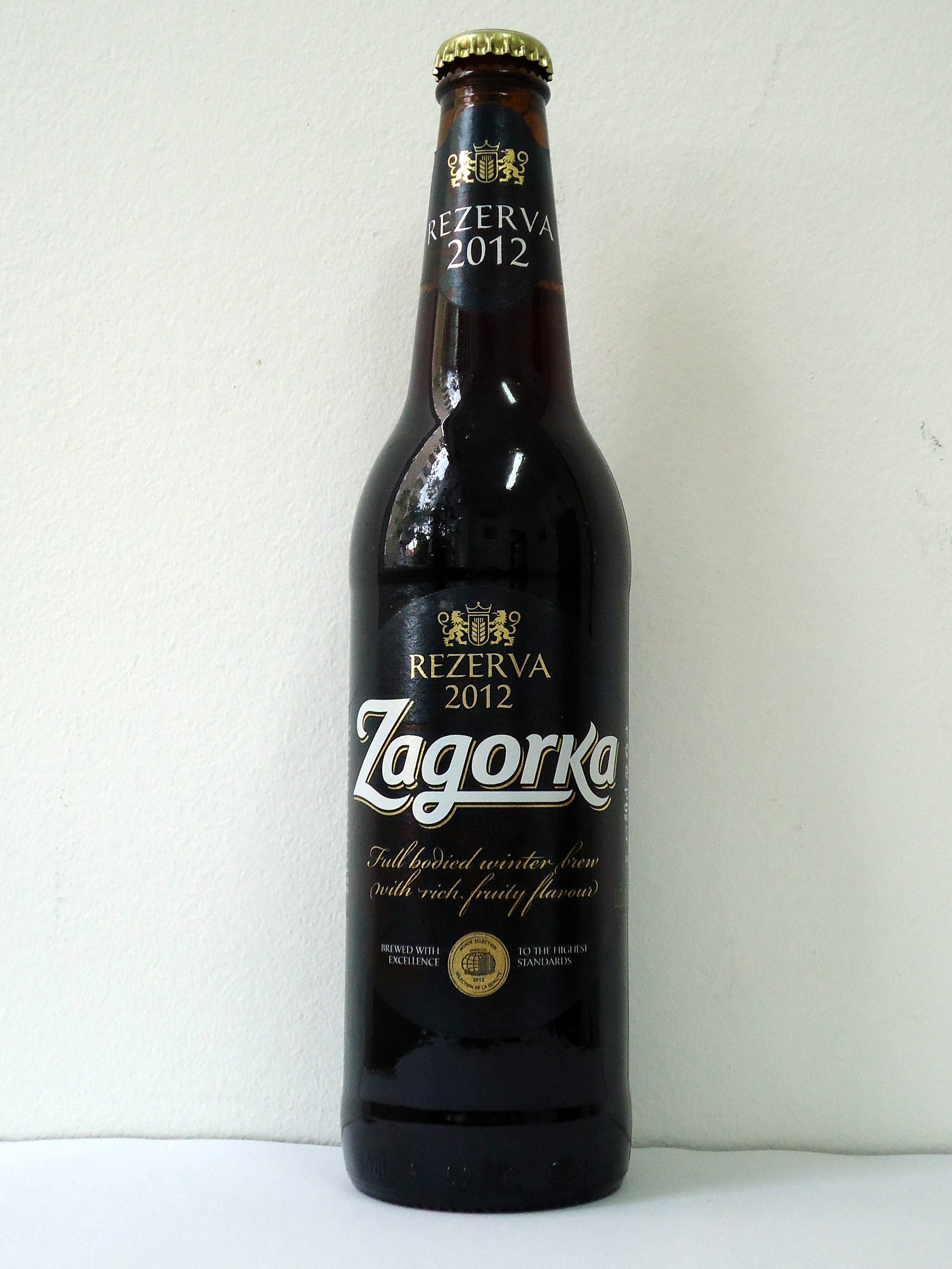 Zagorka Rezerva 2012 BG beer